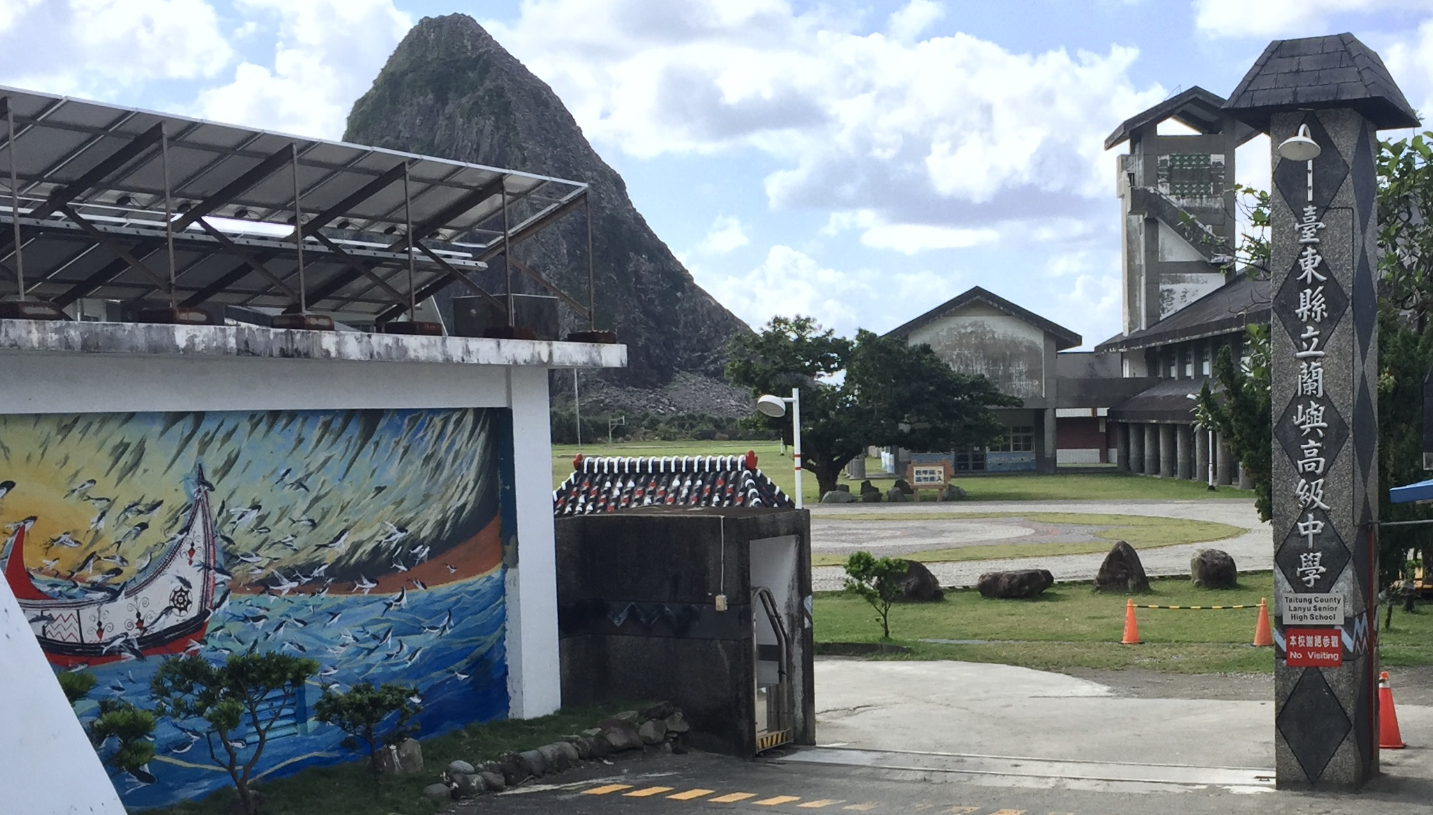 Lanyu High School, Taitung, Taiwan